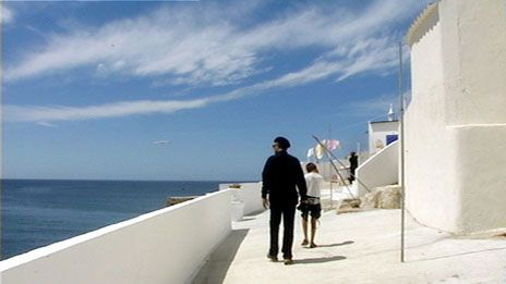 The "hero" together with Rudolfo